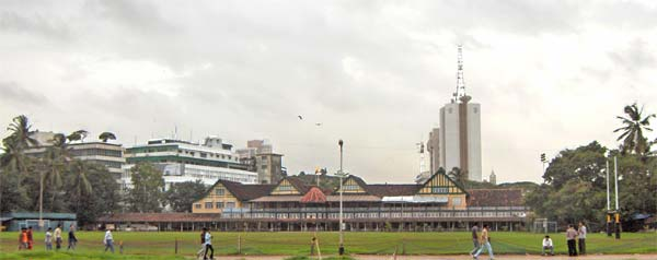 Bombay Gymnkhana a famous club and a former cricket venue in Mumbai. Image taken by me, Nichalp on Sun, Aug 7, 2005